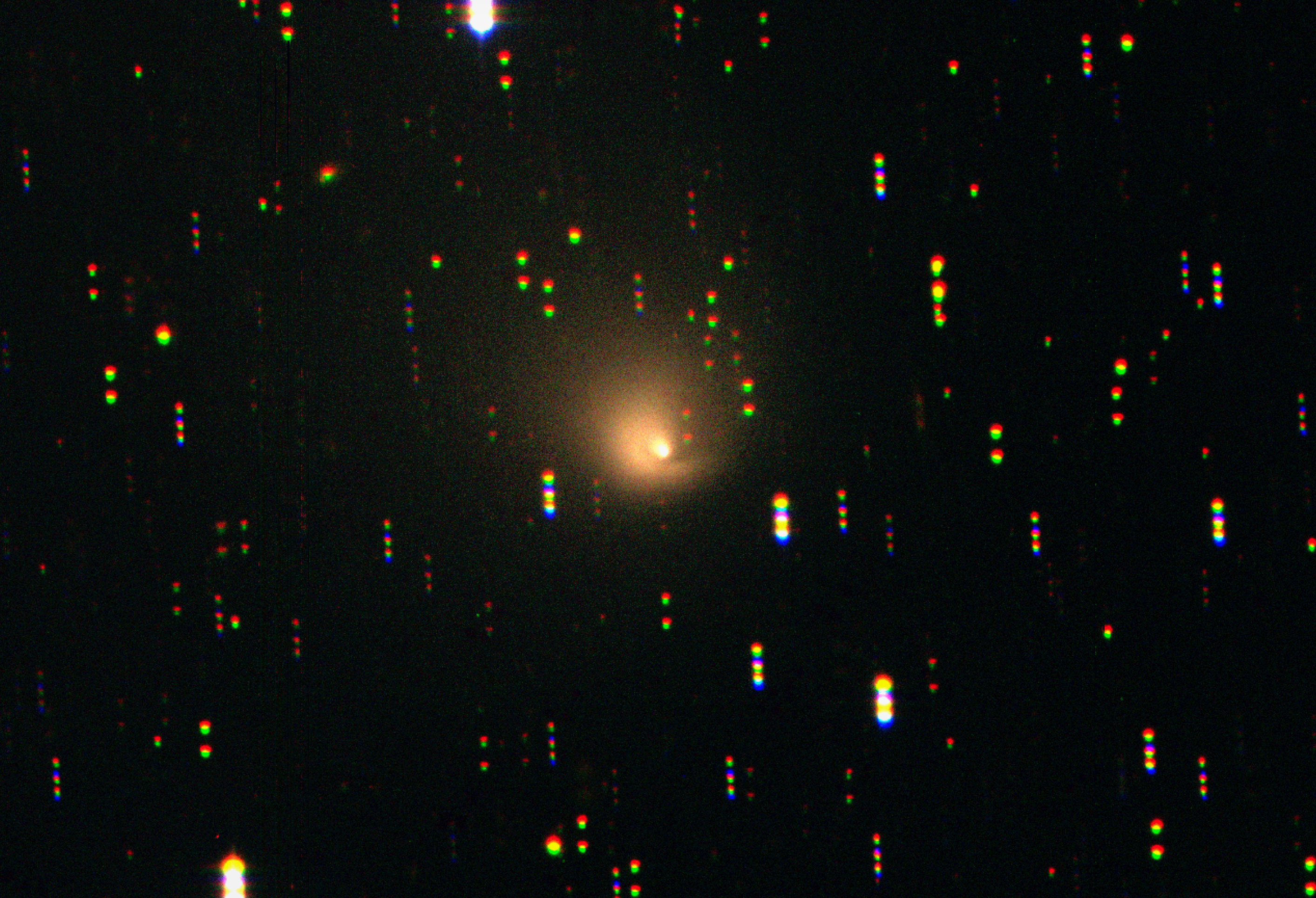 Comet Hale-Bopp , still active at a distance of nearly 2,000 million kilometres from the Sun. The photo is a colour composite of several exposures in different wavebands, obtained with the Wide-Field Imager (WFI) camera at the MPG/ESO 2.2-m telescope at the La Silla Observatory. Despite the very large distance from the Sun, the comet is still "active" - it continues to lose material, as demonstrated by the curved jet, and also possesses an enormous coma. The broad, fan-shaped extension in the tail direction (to the upper left) measures at least 2 million kilometres, cf.